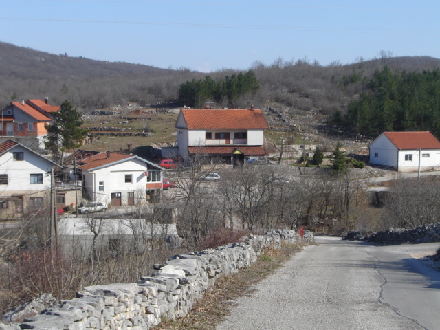 Center of Izbično, Bosnia and Herzegovina